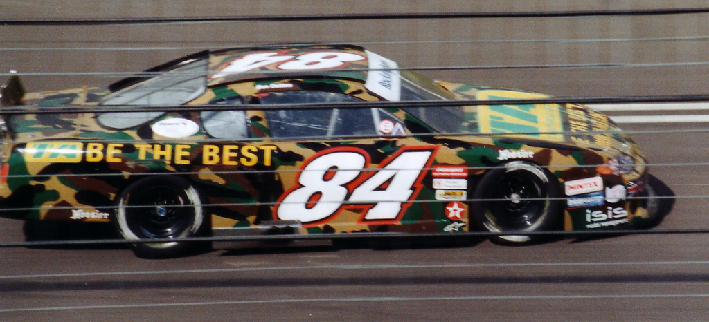 Ben Collins driving the #84 car during the 2003 ASCAR 'Days of Thunder' championship